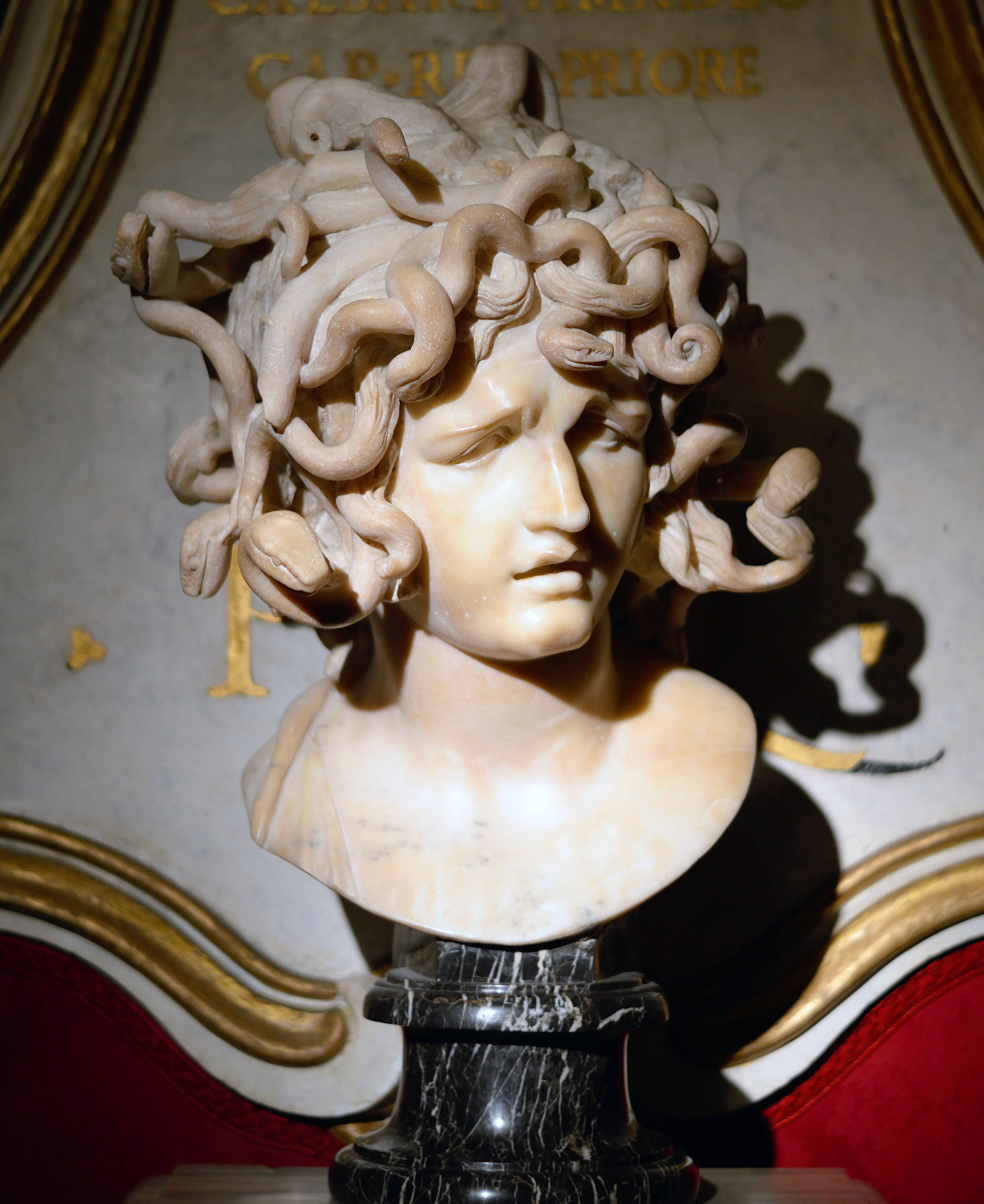 Medusa head by Gianlorenzo Bernini in Musei capitolini